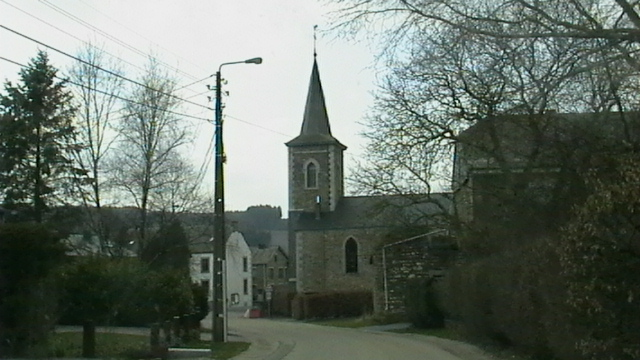 Church and village of Vaux-Chavanne (Manhay) Walon: Eglijhe del Vå-d'-Xhavane